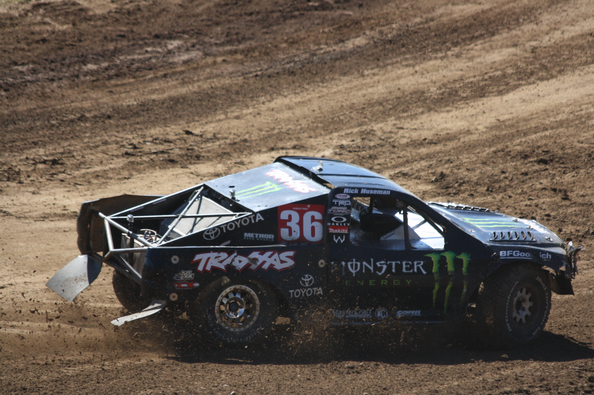 Pro 4 driver Rick Huseman doing doughnuts after winning the 2010 Pro 4 World Championship race at Crandon International Off-Road Raceway.